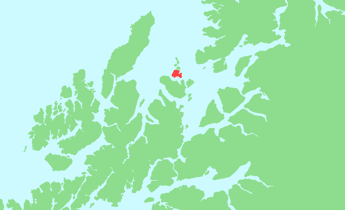 Locator map of Bjarkøya, Troms, Norway